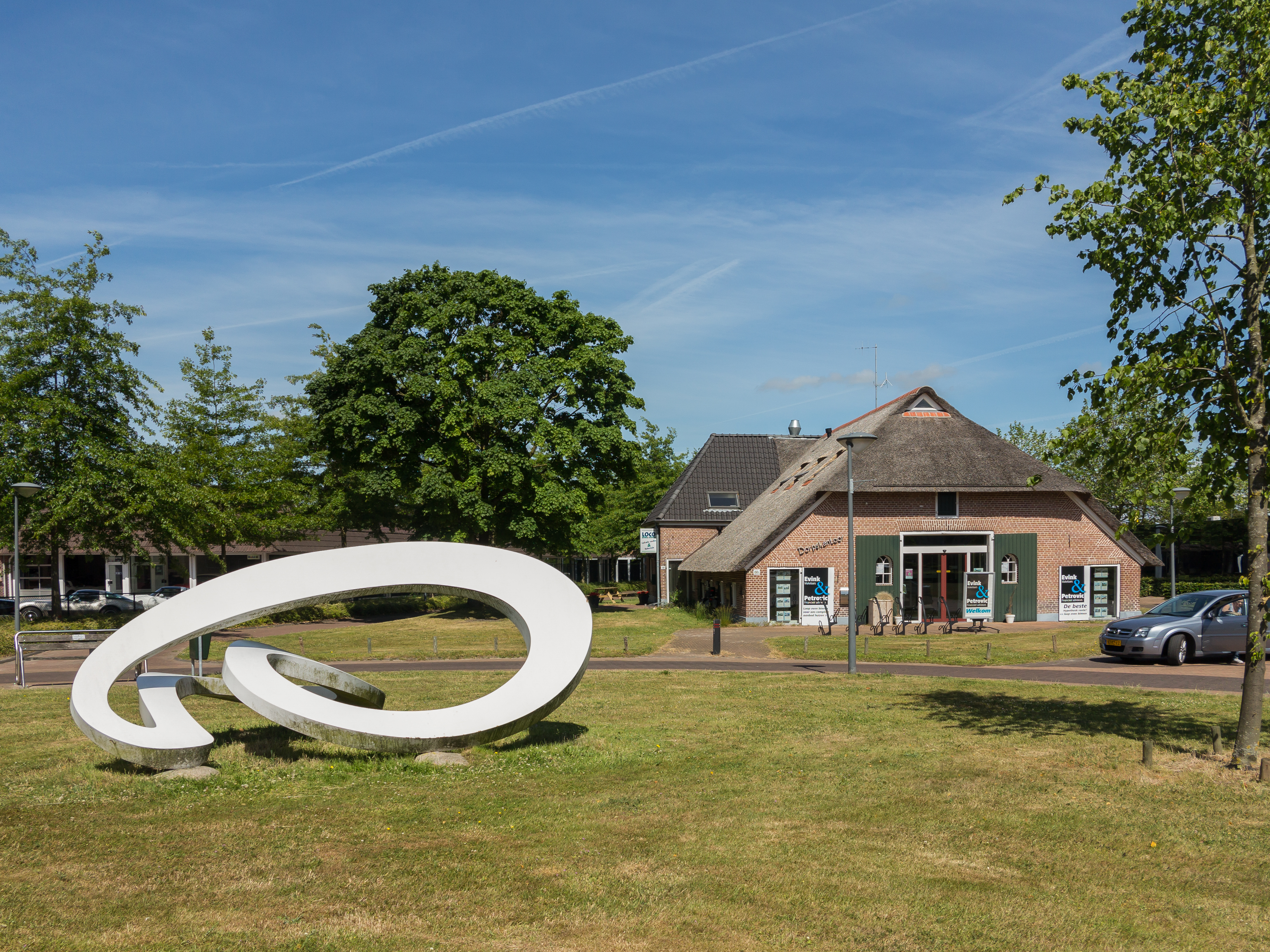 Wezep, village-office Zuiderzeestraatweg 498a, 8091 Wezep